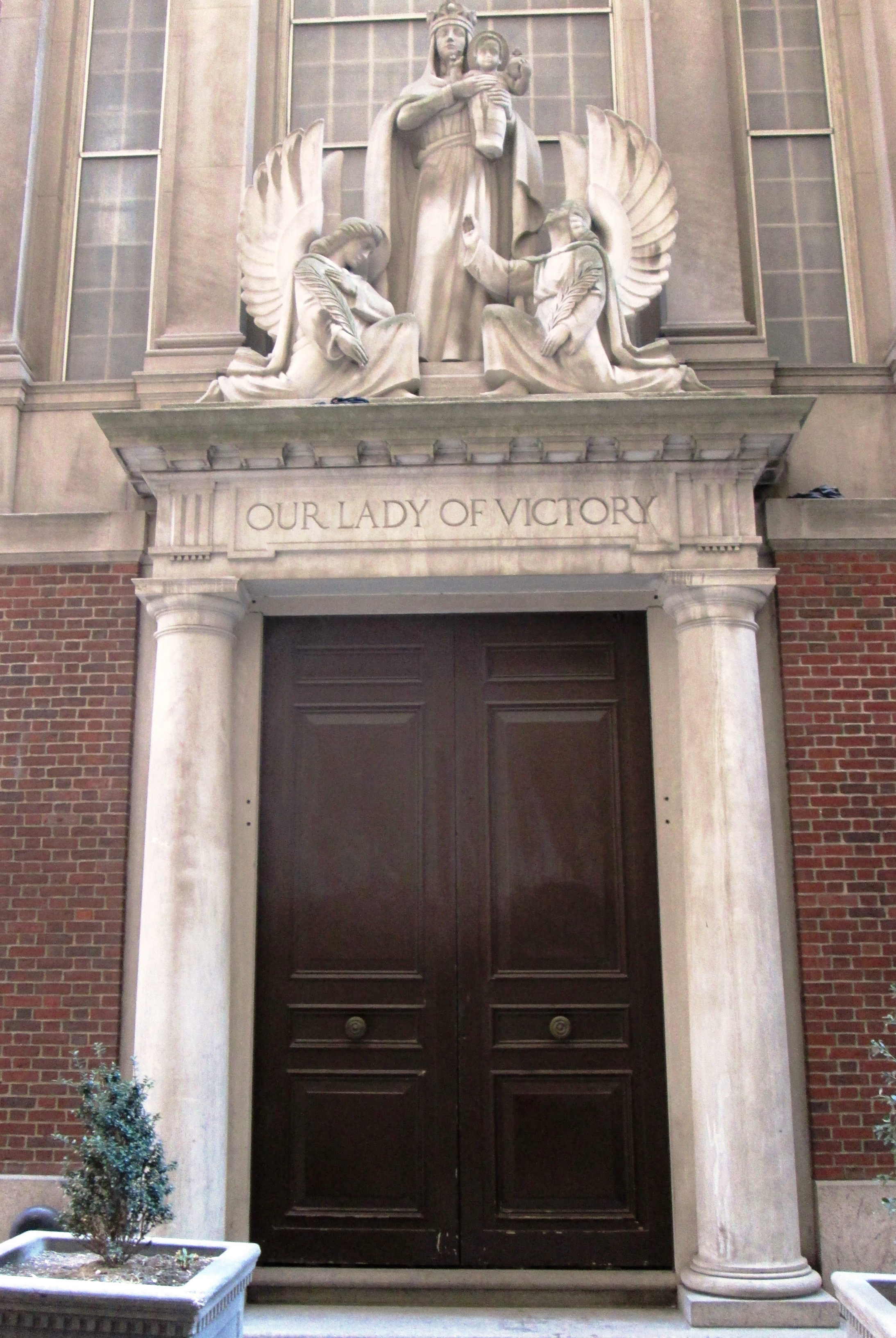 The Church of Our Lady of Victory is a Roman Catholic parish church in the Roman Catholic Archdiocese of New York, located at 60 William Street at the corner of Pine Street inthe Financial District of New York City. It was established by Francis Cardinal Spellman in 1944 at 23 William Street and moved to its current location in 1946. It was designed by Eggers & Higgins in the Georgian style.